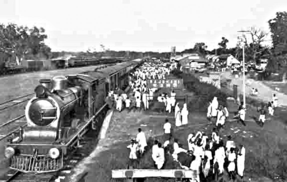 A train waits at the Rajshahi station in the 1930s. Photo: Chris Walker Collection/The Restoration & Archiving Trust